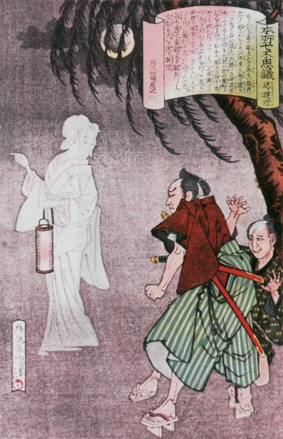 Okuri-chōchin, from the Honjo-nana-fushigi, Woodblock print (nishiki-e); ink and color on paper